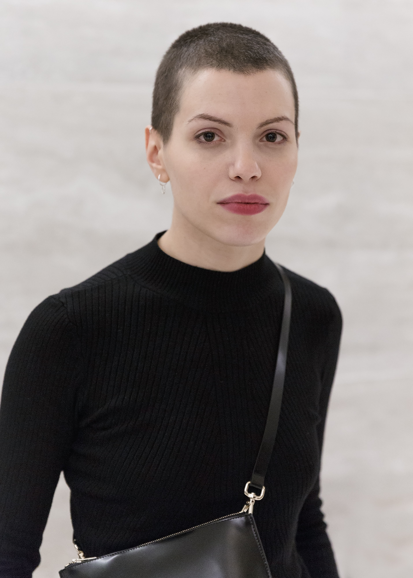 Anja Plaschg at the Nestroy Theatre Awards 2016 in Vienna, Austria).